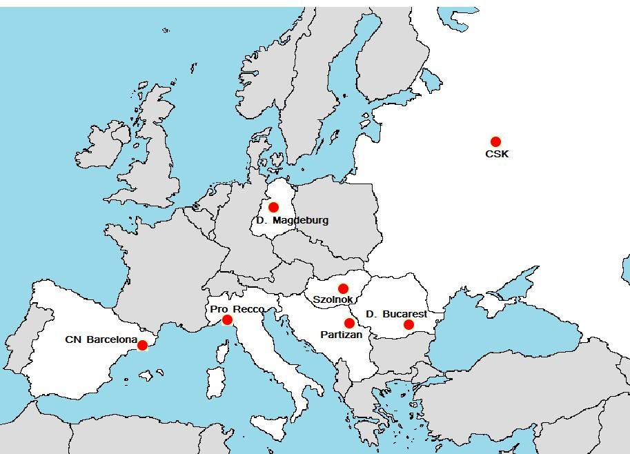 LEN Champions League 1964-1965 teams geographic distribution.